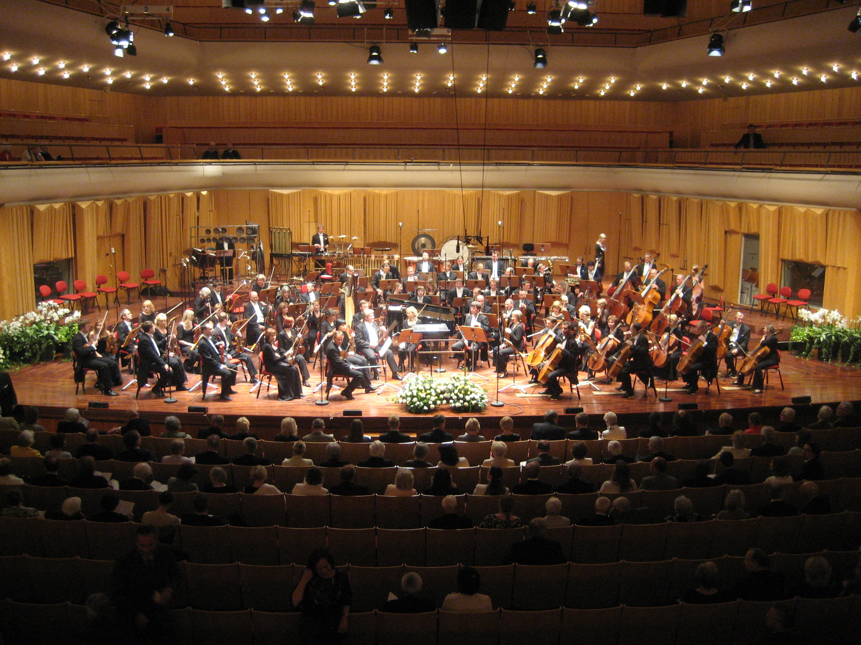 performing "Future Continuous" - the musical gift for Sweden at Stockholm's Berwaldhallen